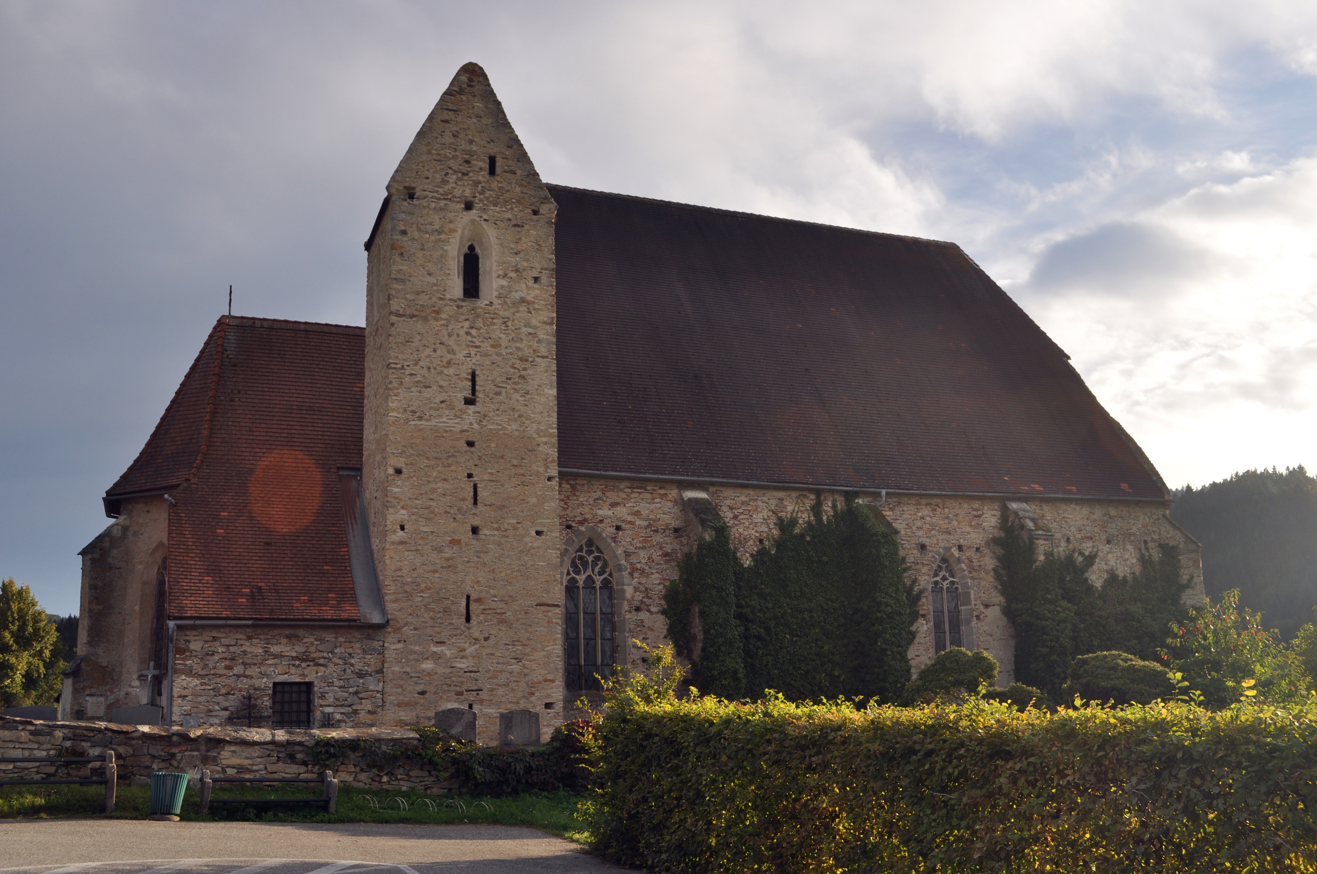 Branch Church of St. Anna im Felde at Pöggstall, District Melk, Lower Austria